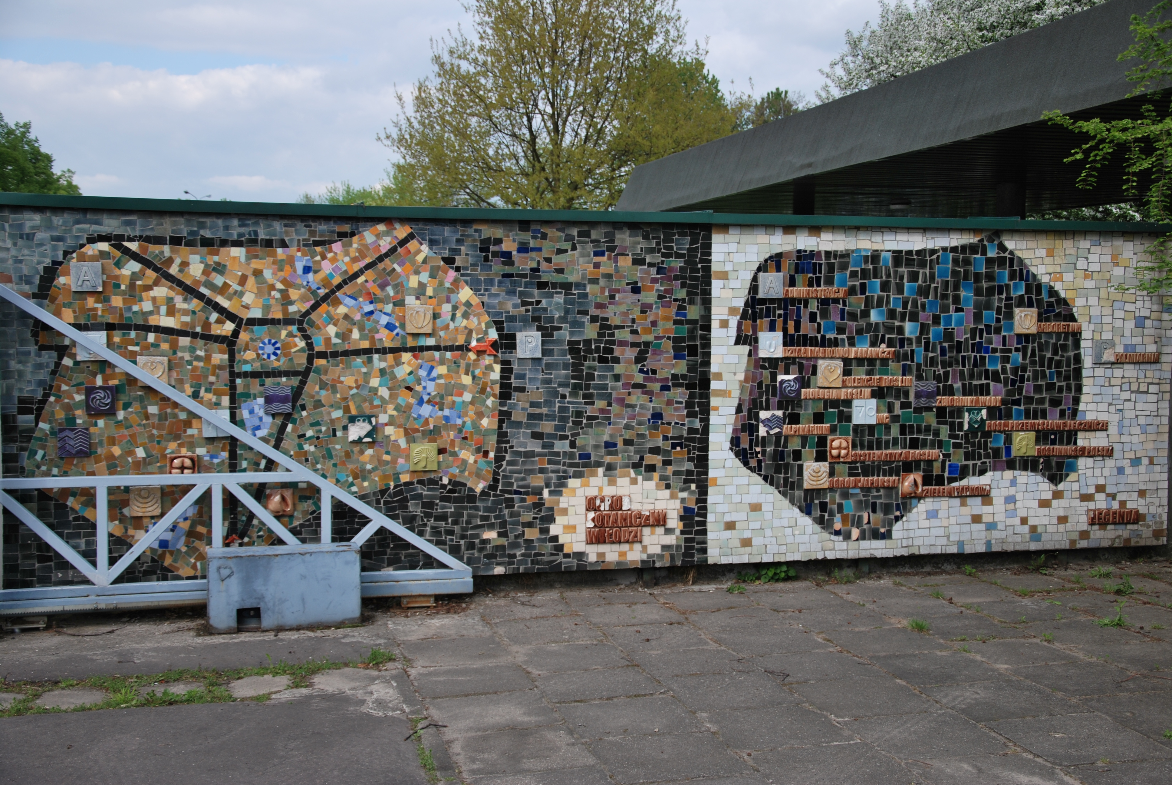 Graphic map on the wall, Botanical Garden in Łódź